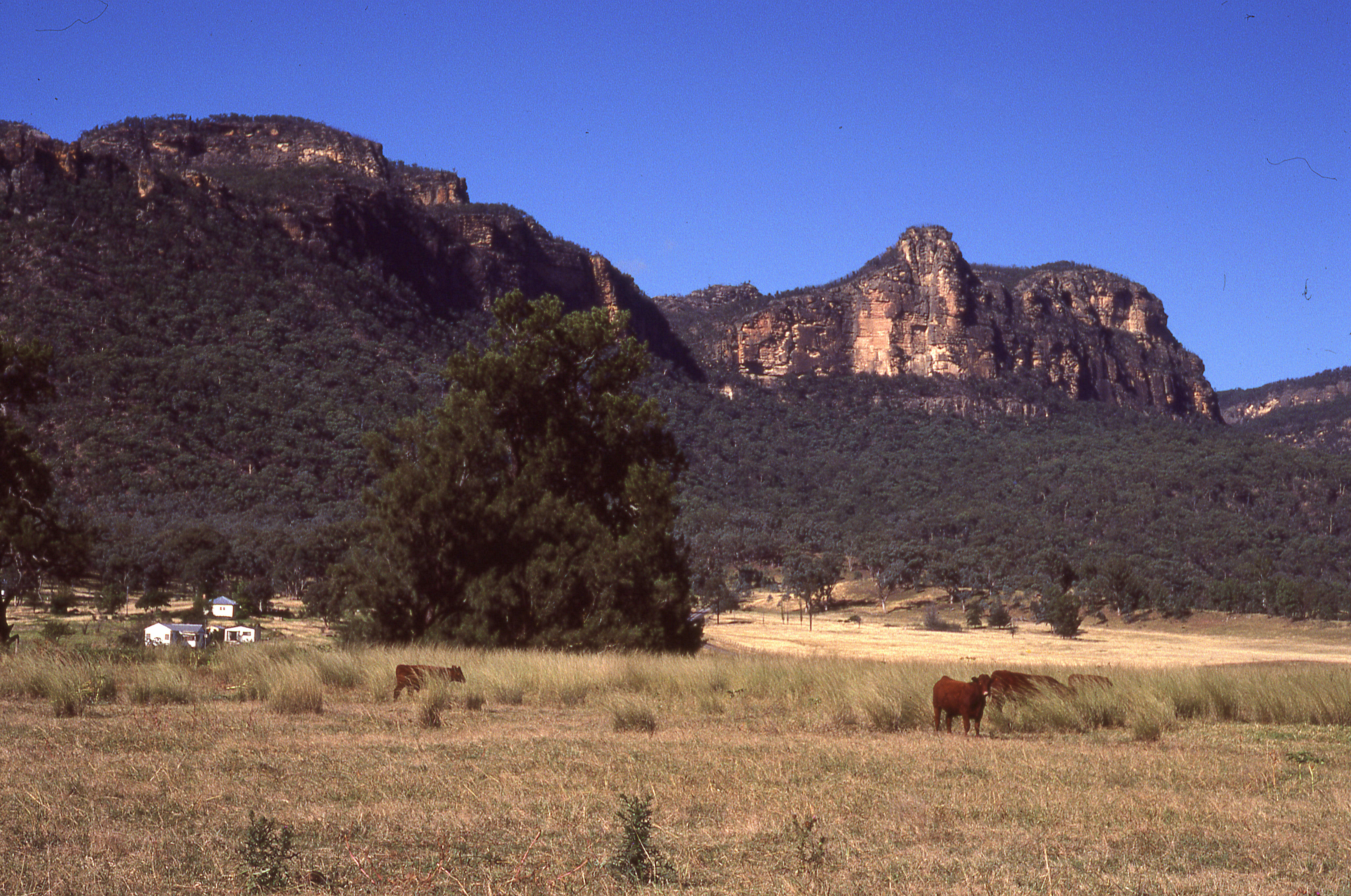 Glen Davis, NSW, Australia (very old Kodachrome slide)